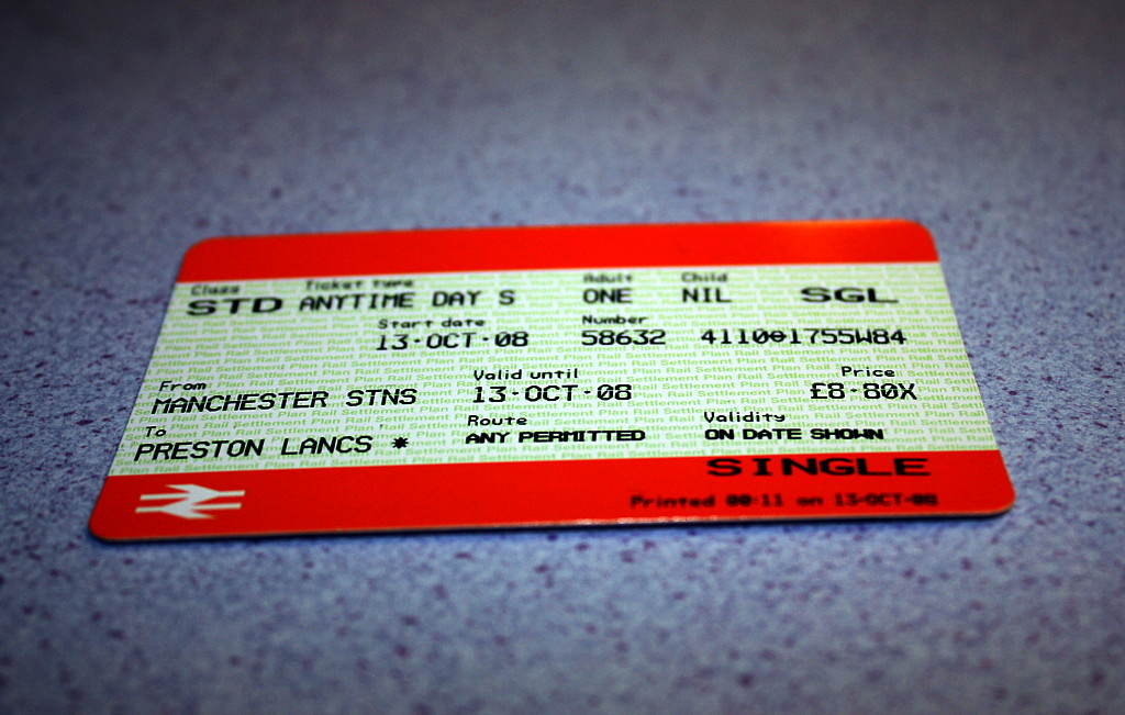 One way ticket to hell